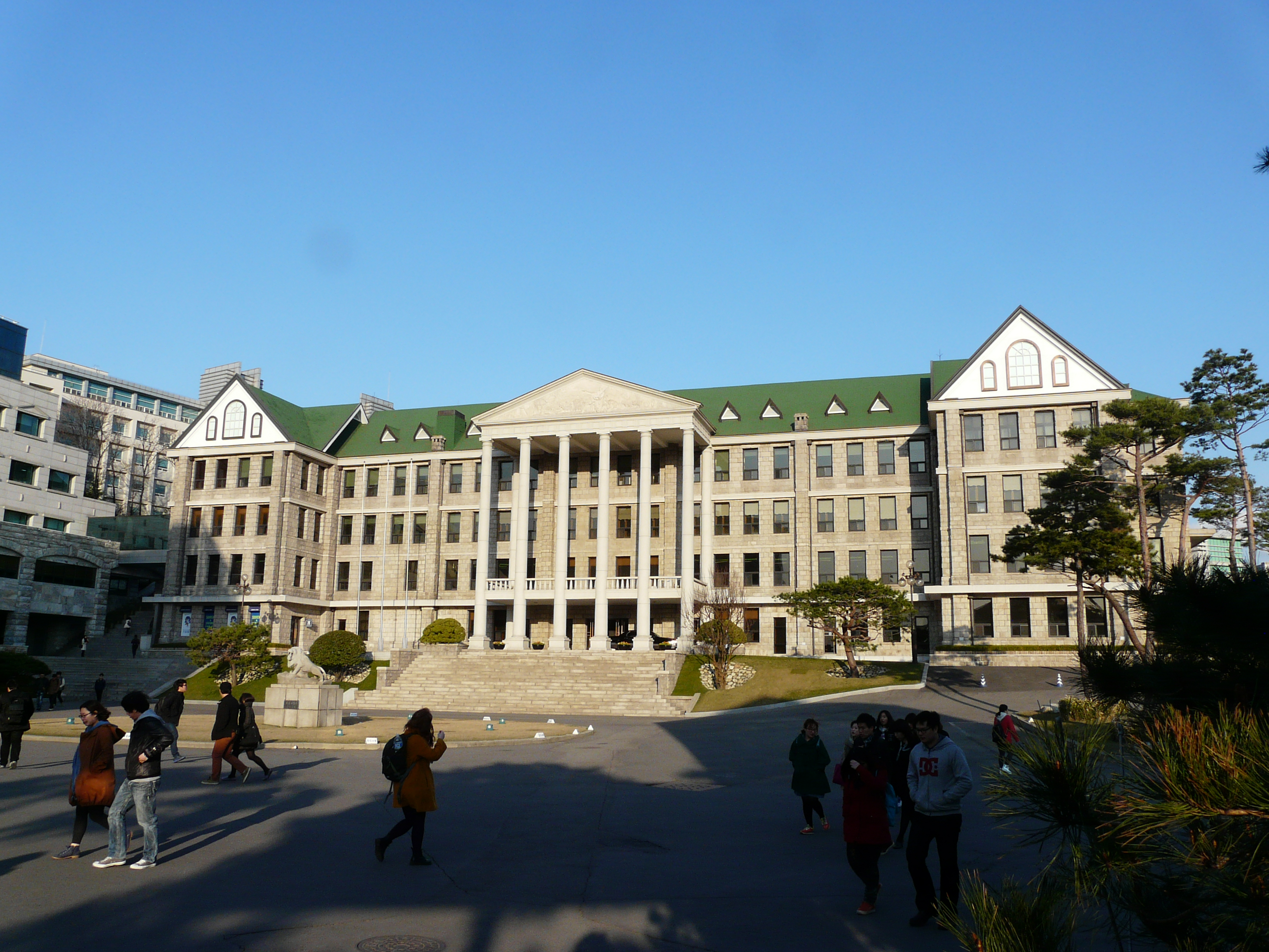 Hanyang University, private research university in South Korea, main campus is in Seoul, founded 1939.